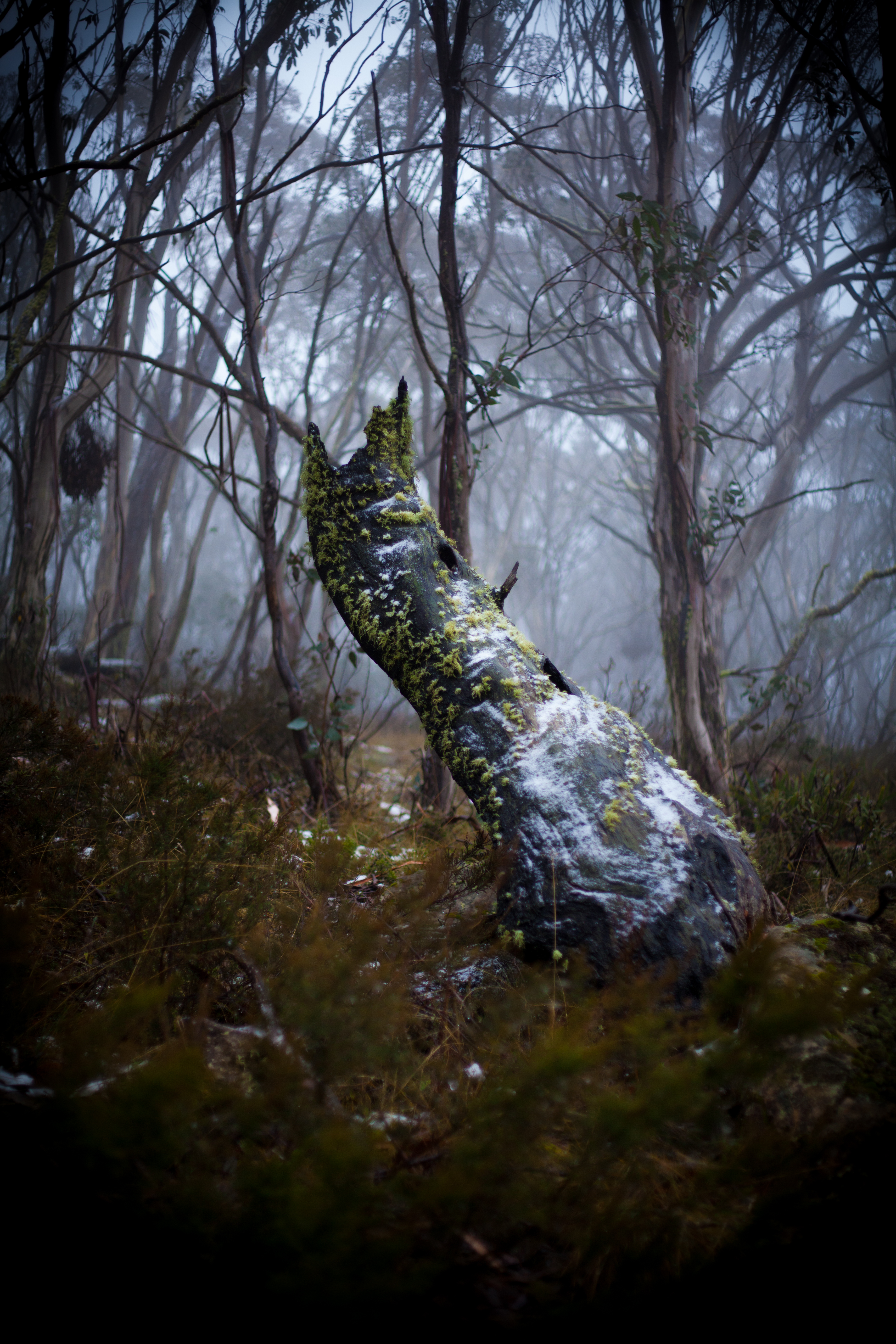 A frozen tree in the Bimberi Nature Reserve - Taken in June 2016